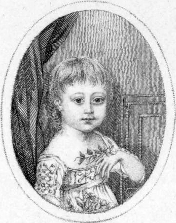 Welsh child harpist Elizabeth Randles (1801-1829).